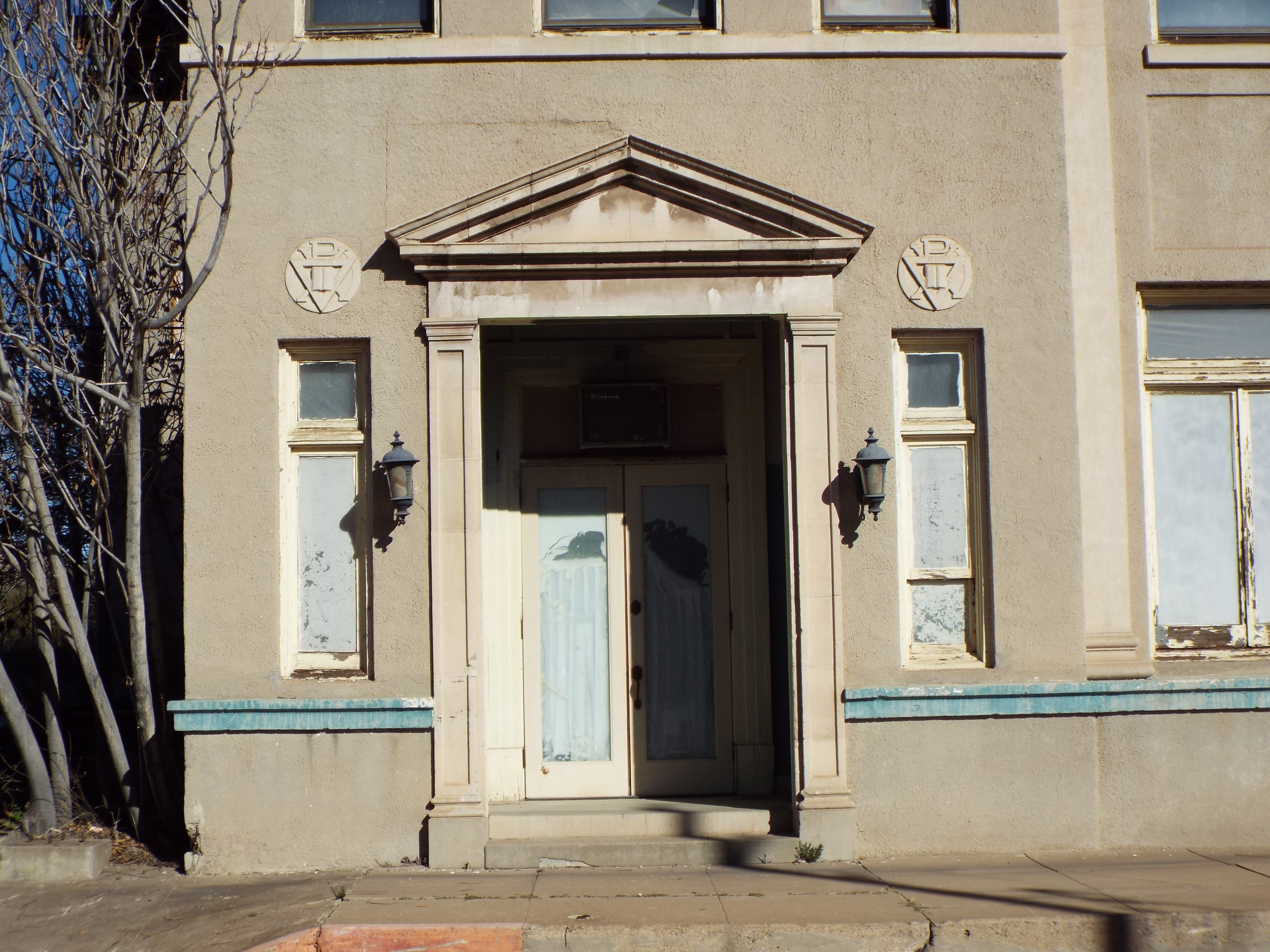 Close-up of the 1917 YMCA building at 155 N. Miami, Ave. in Miami, Az.